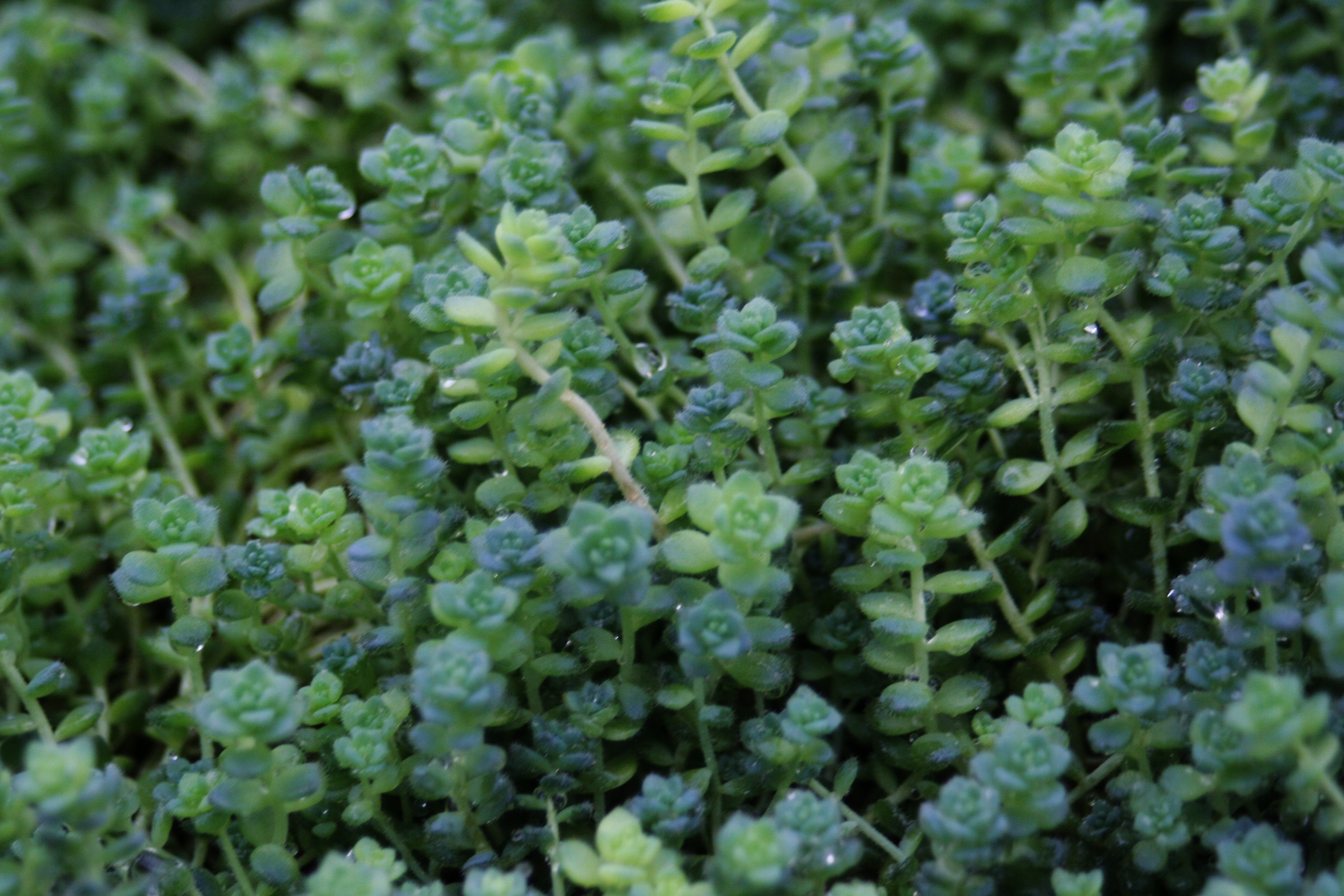 Sedum dasyphyllum at the Buffalo and Erie County Botanical Gardens.